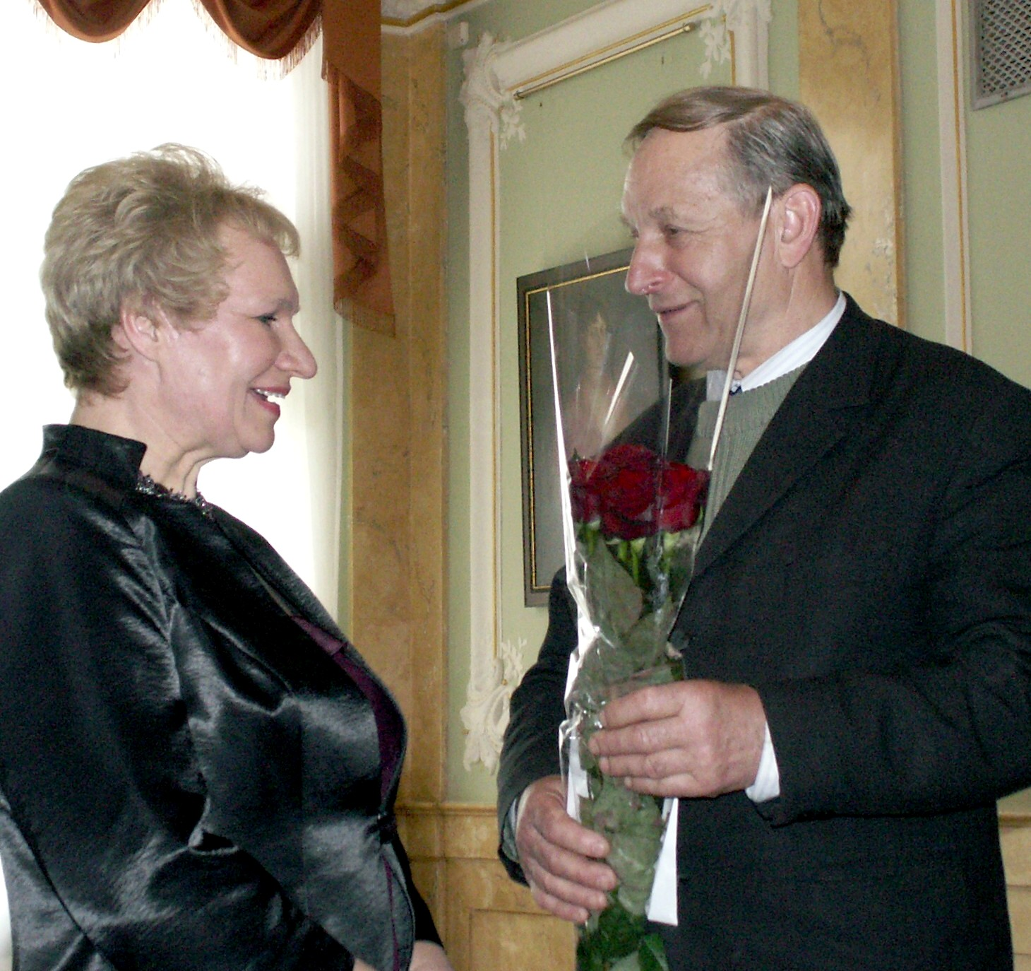 Ethnographers, engineers Genovaitė Žukauskienė and Jonas Rimkevičius from Šiauliai